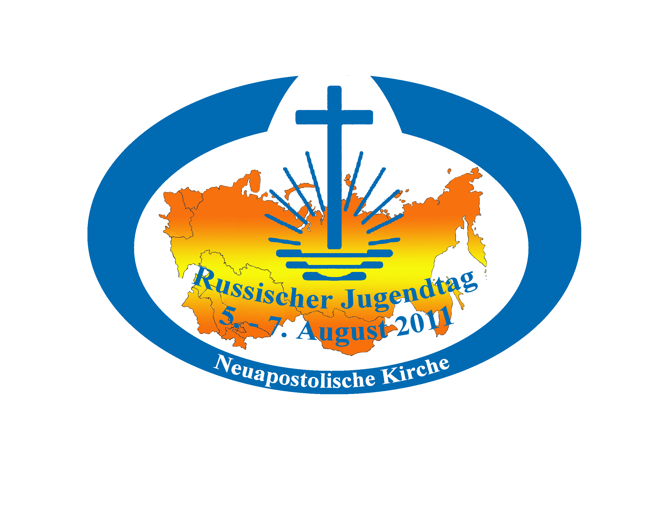 Logo-RJT2011-GERMAN